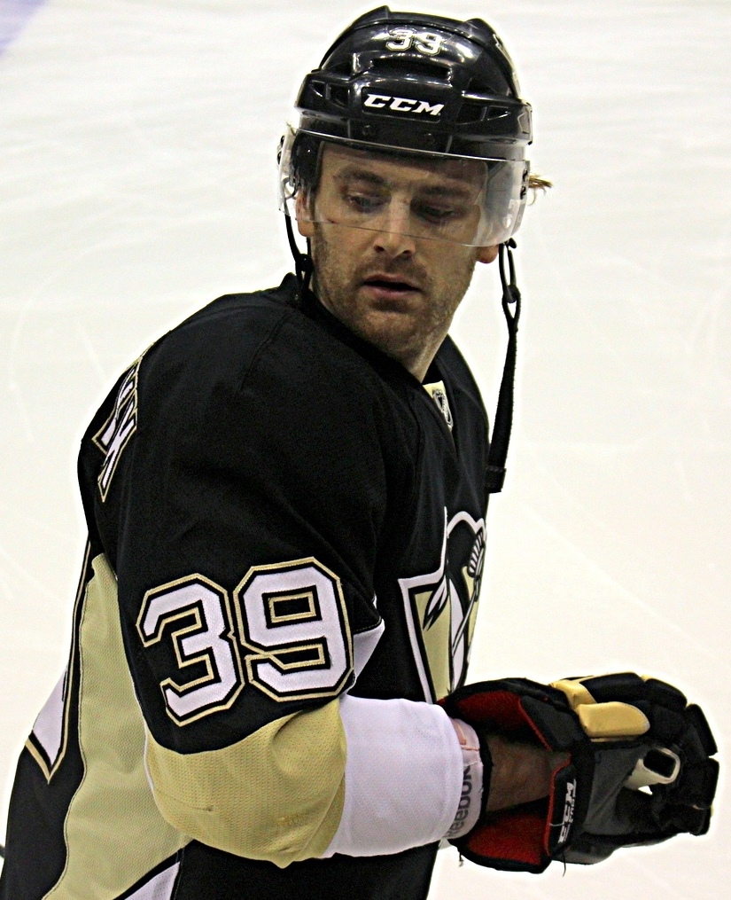 Pittsburgh Penguins forward Harry Zolnierczyk skating against the Calgary Flames, December 21, 2013 at Consol Energy Center in Pittsburgh, PA.